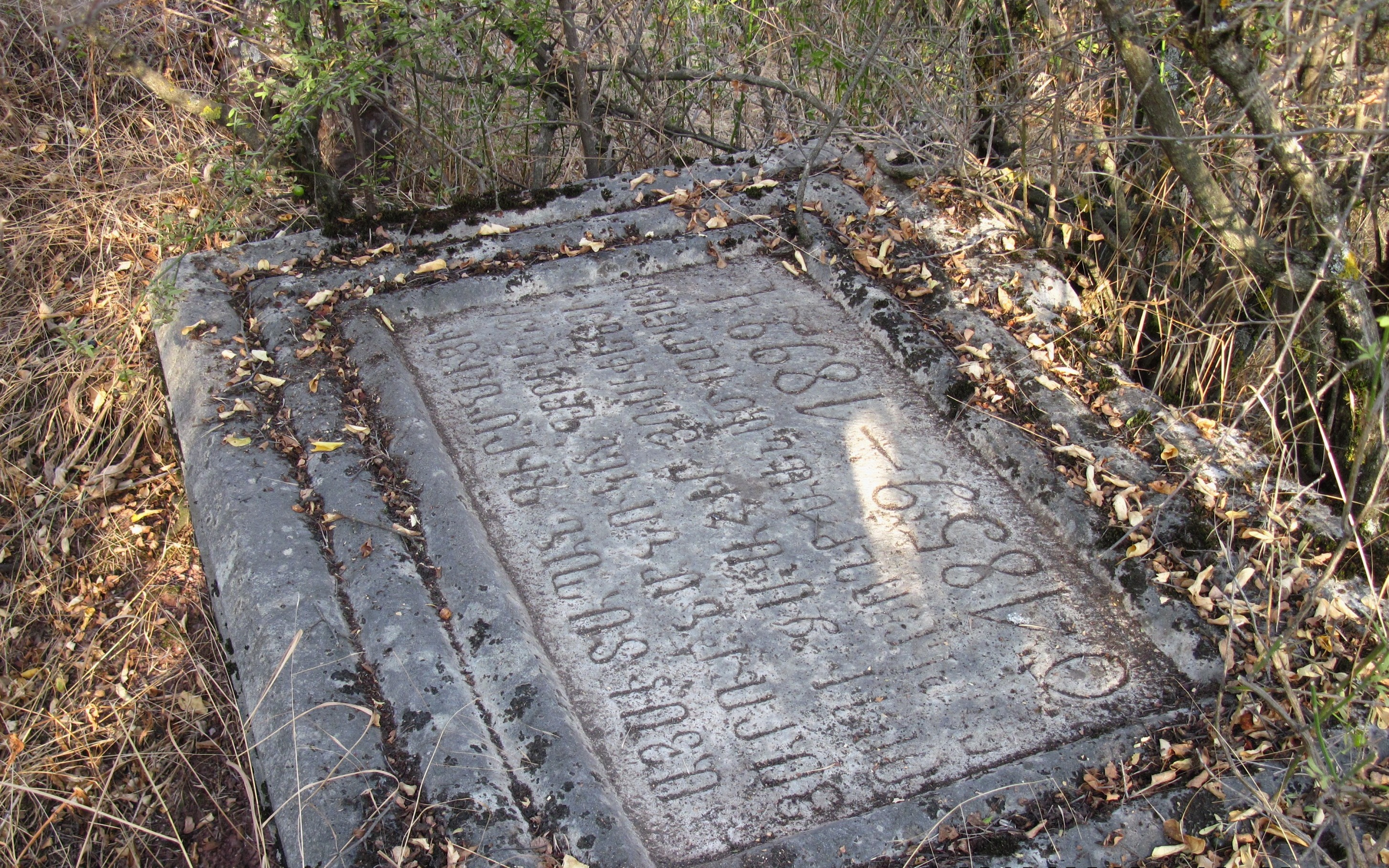 This photo of a tombstone, taken in an old Armenian cemetery in Garmanab, indicates the religious diversity in Arasbaran region.